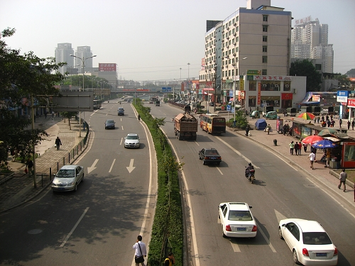 View of the western part of Bashan,Chongqing.